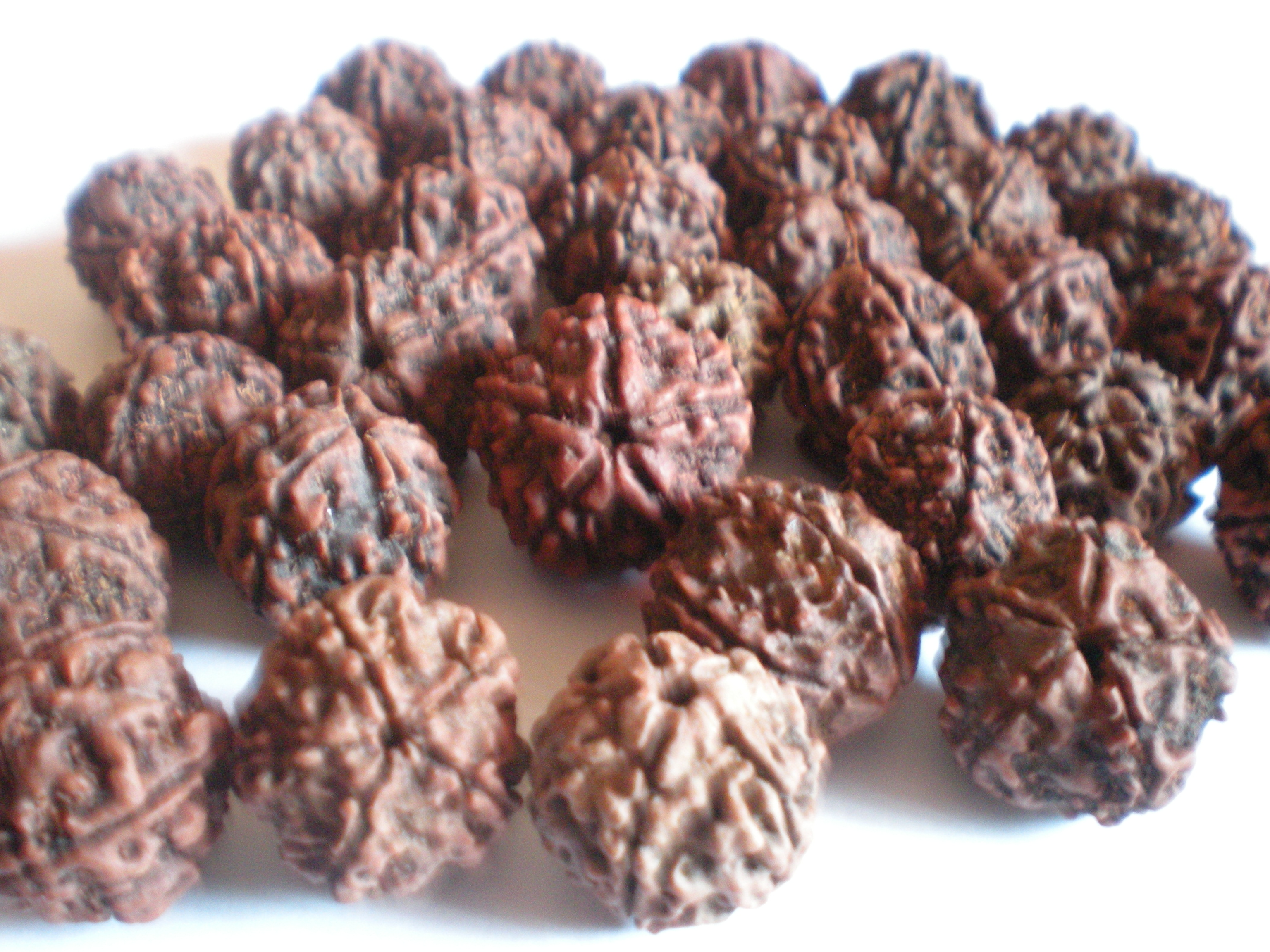 A group of five muki rudraksha